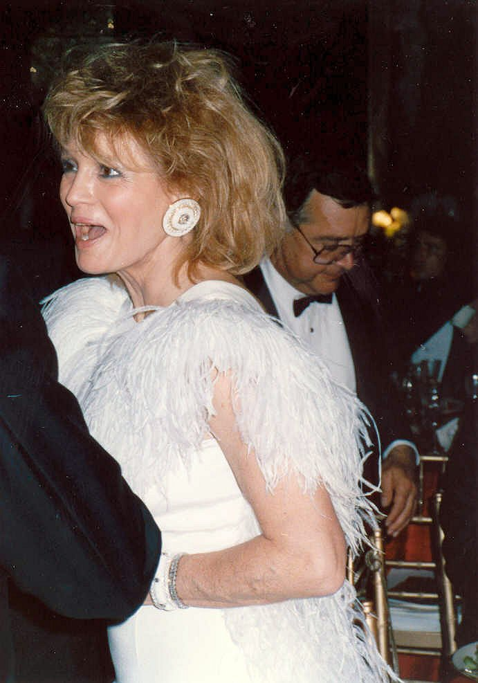 Angie Dickinson at the Governor's Ball party after the 1989 Academy Awards, March 29, 1989